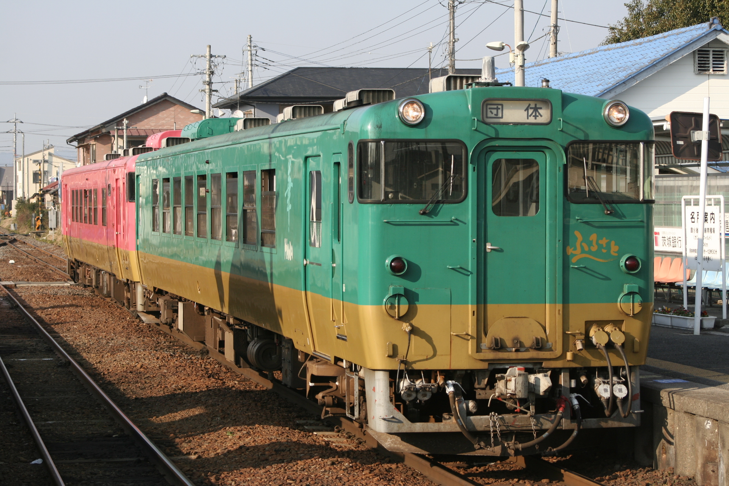 48 series Joyful Train DMU "Furusato" at Hitachi-Omiya Station on the Suigun Line